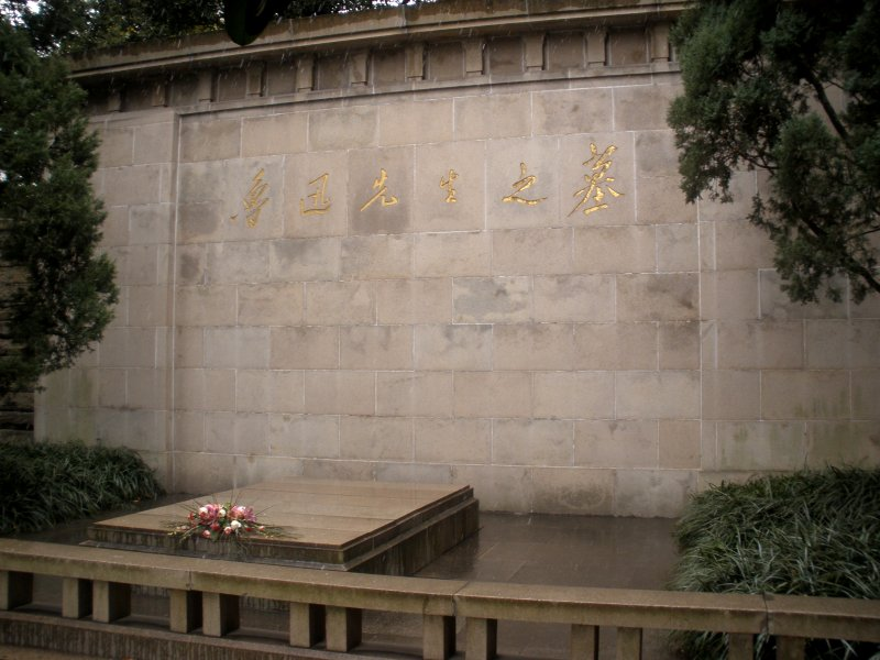 The tomb of Lu Xun in Shanghai with an inscription above stating "The Tomb of Mr. Lu Xun" done by Mao Zedong.